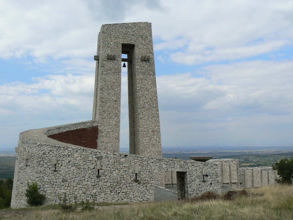 The memorial on the hill beyond Perushtitsa, Bulgaria